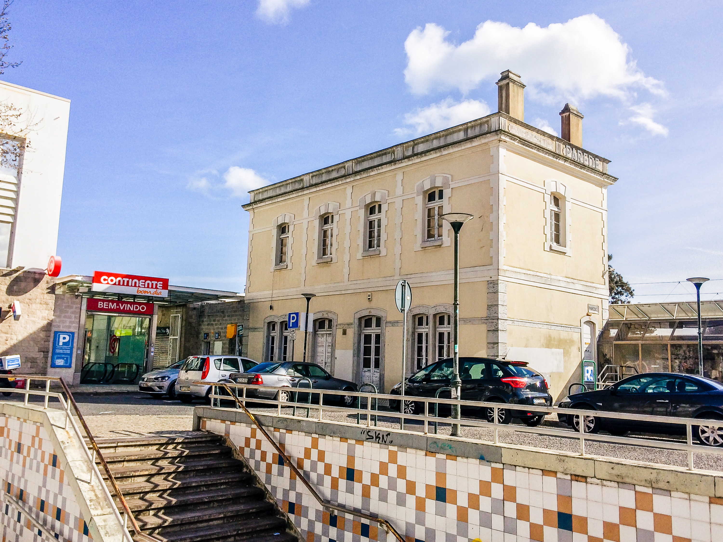 Parede train station at Cascais Line, Portugal